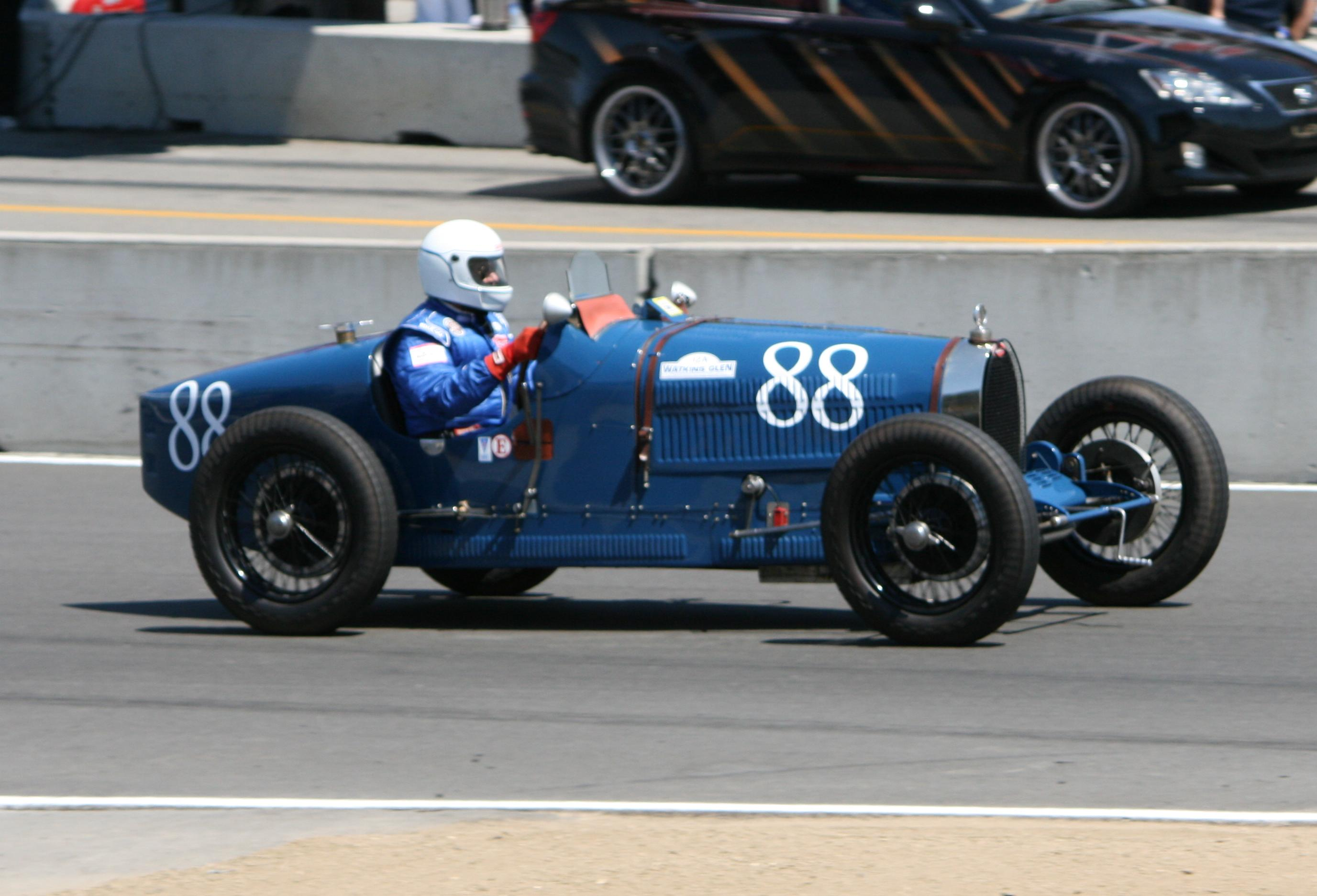 1925 Bugatti T-35A at Monterey 2008